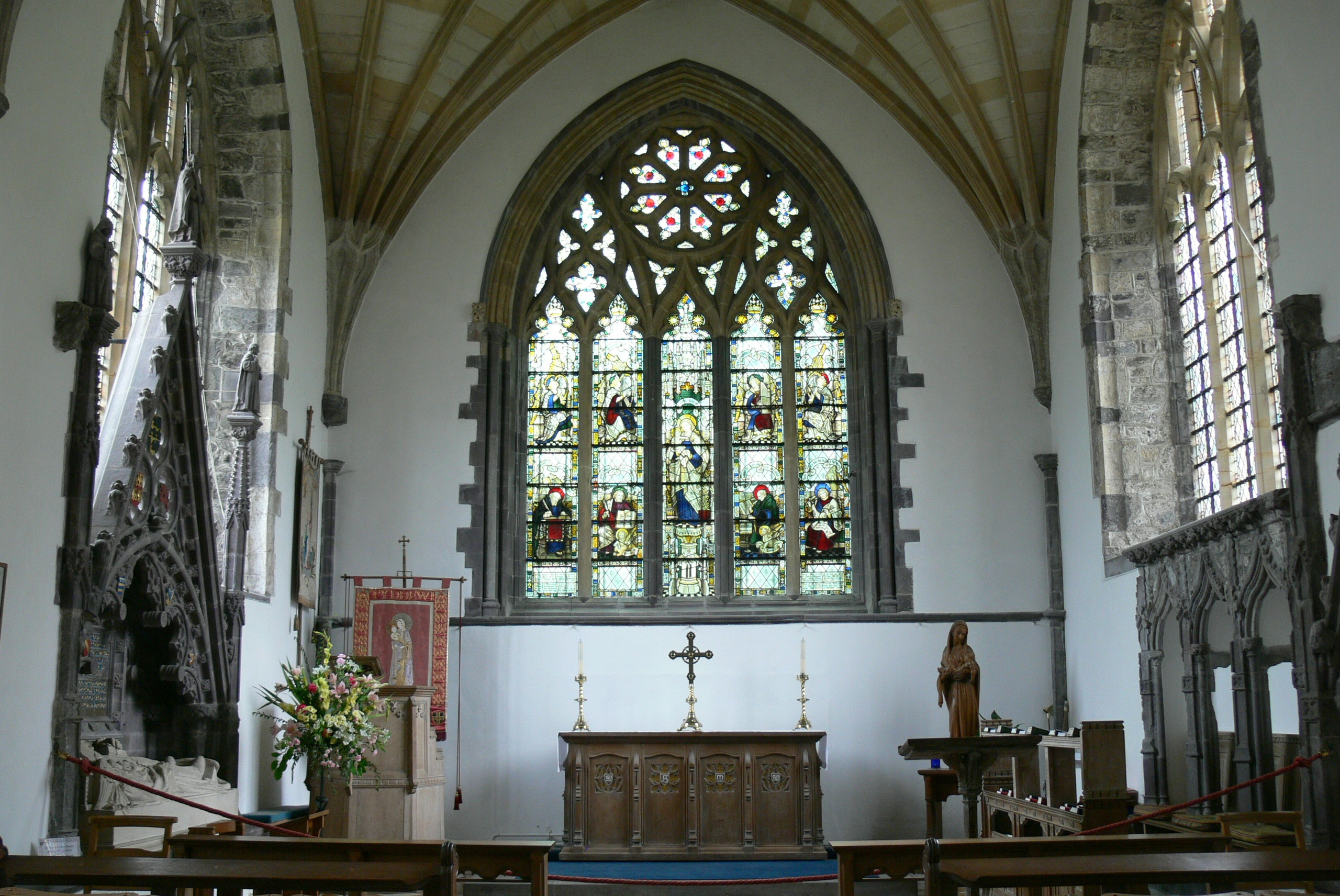 St.David's ( Wales ). Cathedral: Lady chapel ( 14th century ).